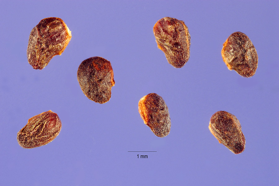 Potentilla anserina (L.) Rydb. - silverweed cinquefoil